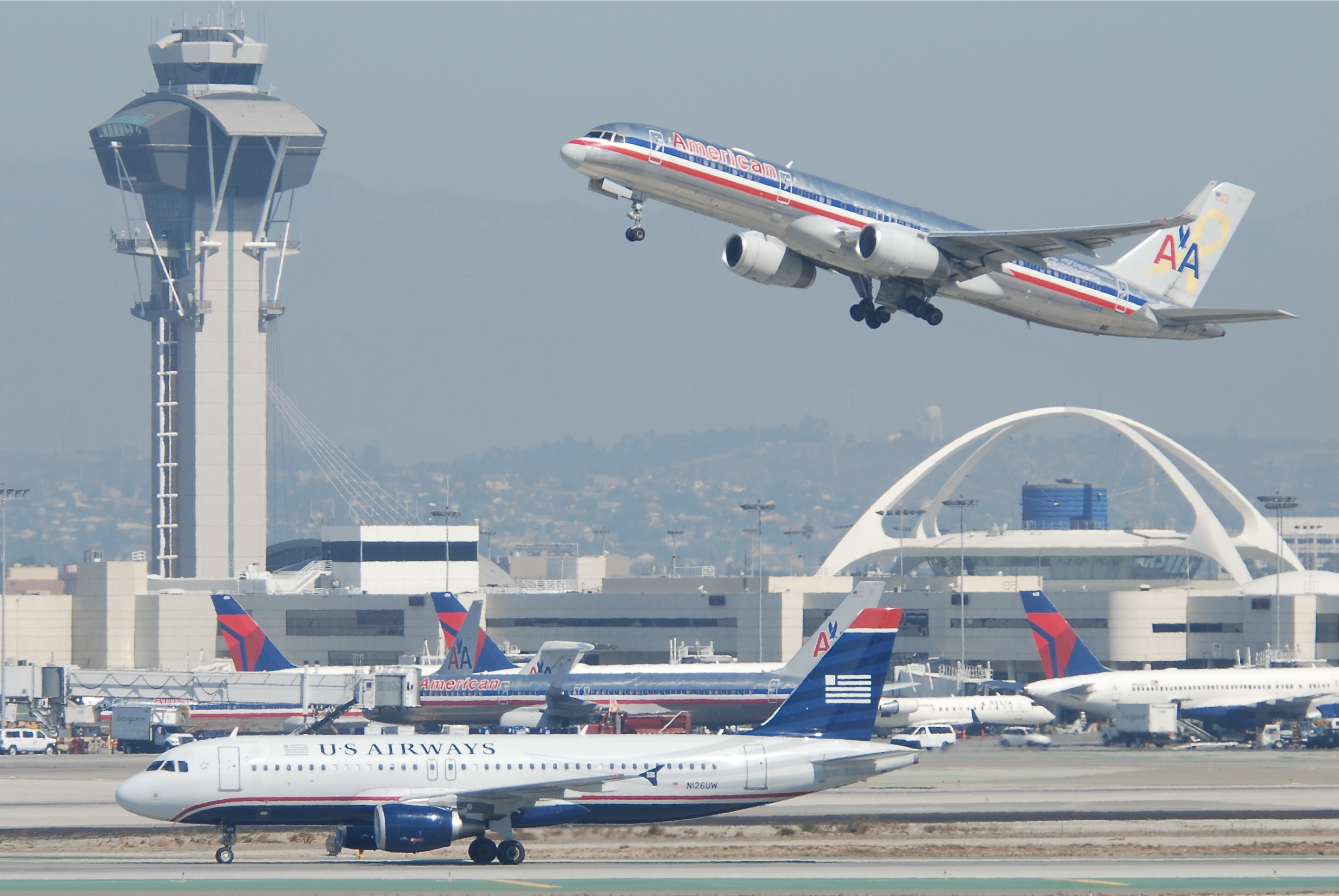 US Airways Airbus A320-214; N126UW@LAX;11.10.2011/623fp